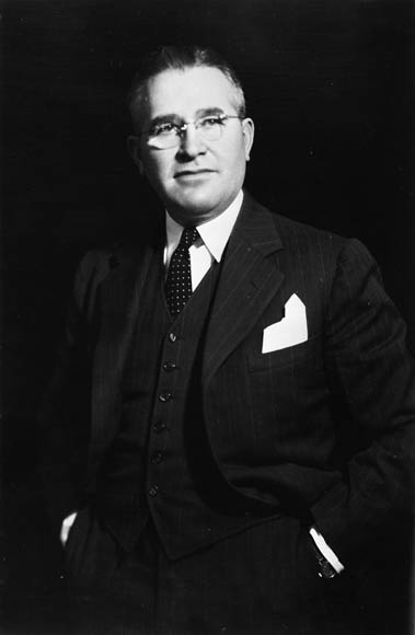 Solon Earl Low, MP for Peace River, 1946.